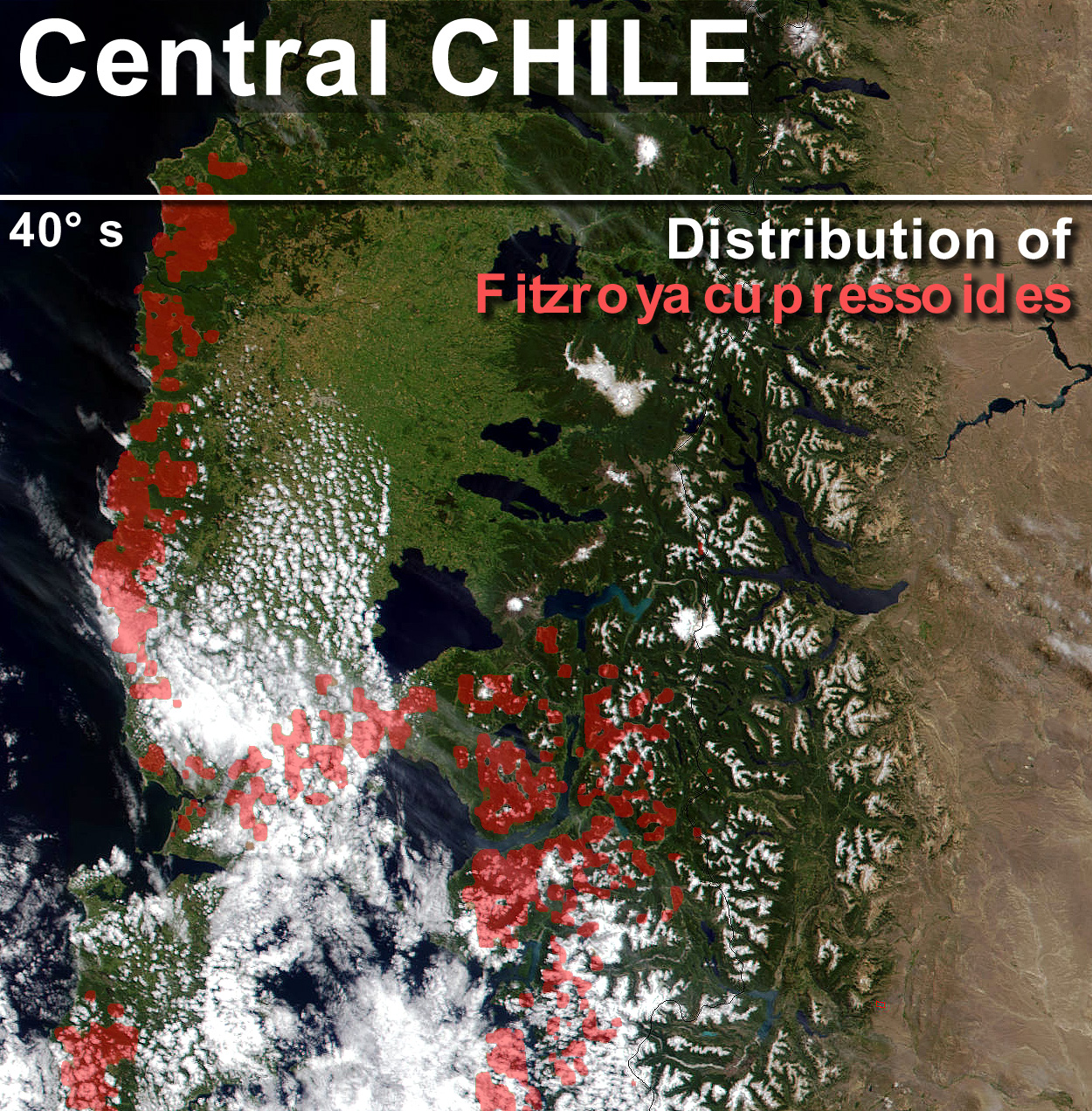 Distribution of the Alerce of Central Chile